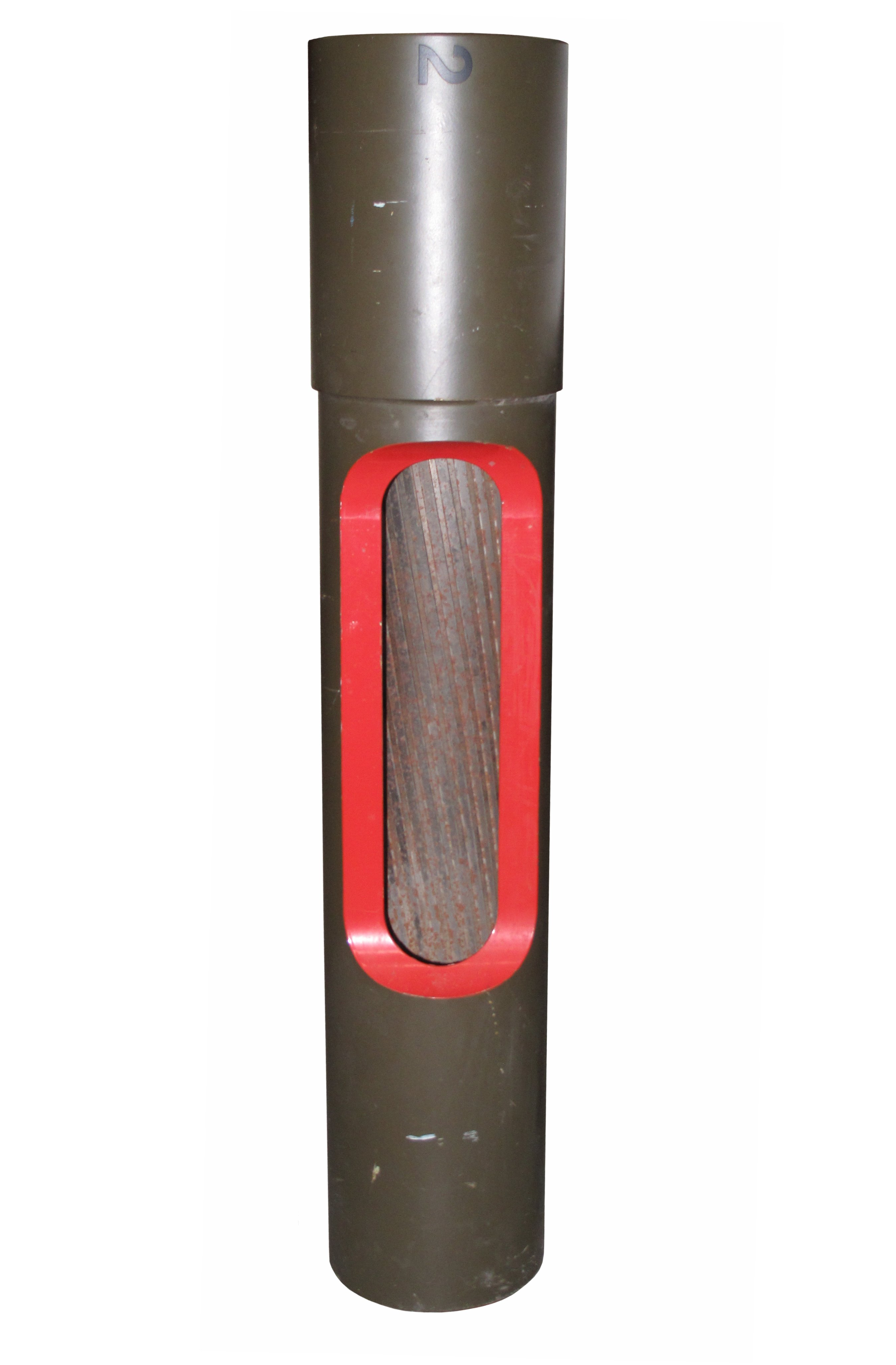 105 mm Modèle F1 gun of an AMX-30